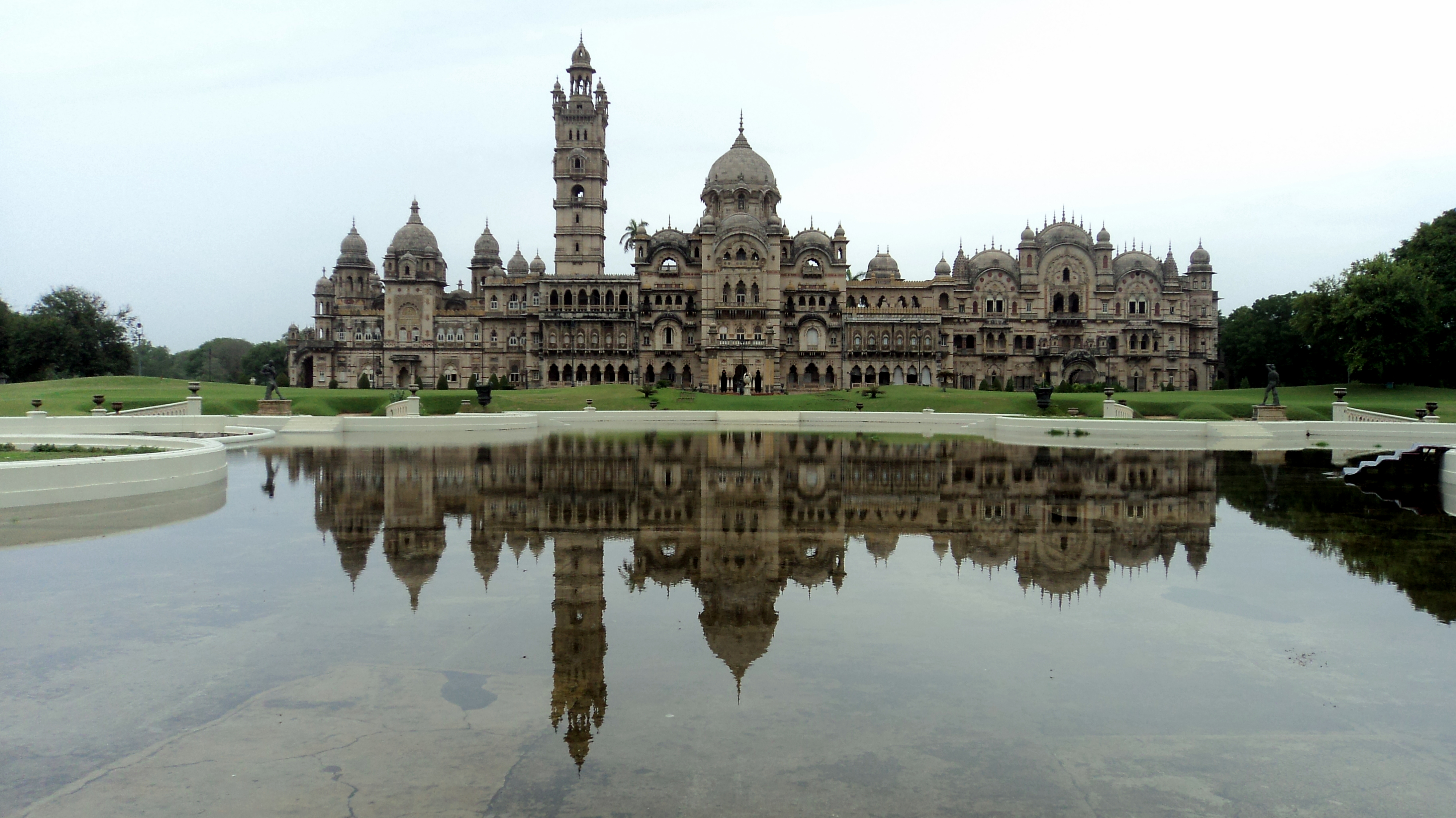 The royal home of Vadodara's former king Maharaja Sir Sayajirao. Observe the architecture, which includes the flavours of various religions!